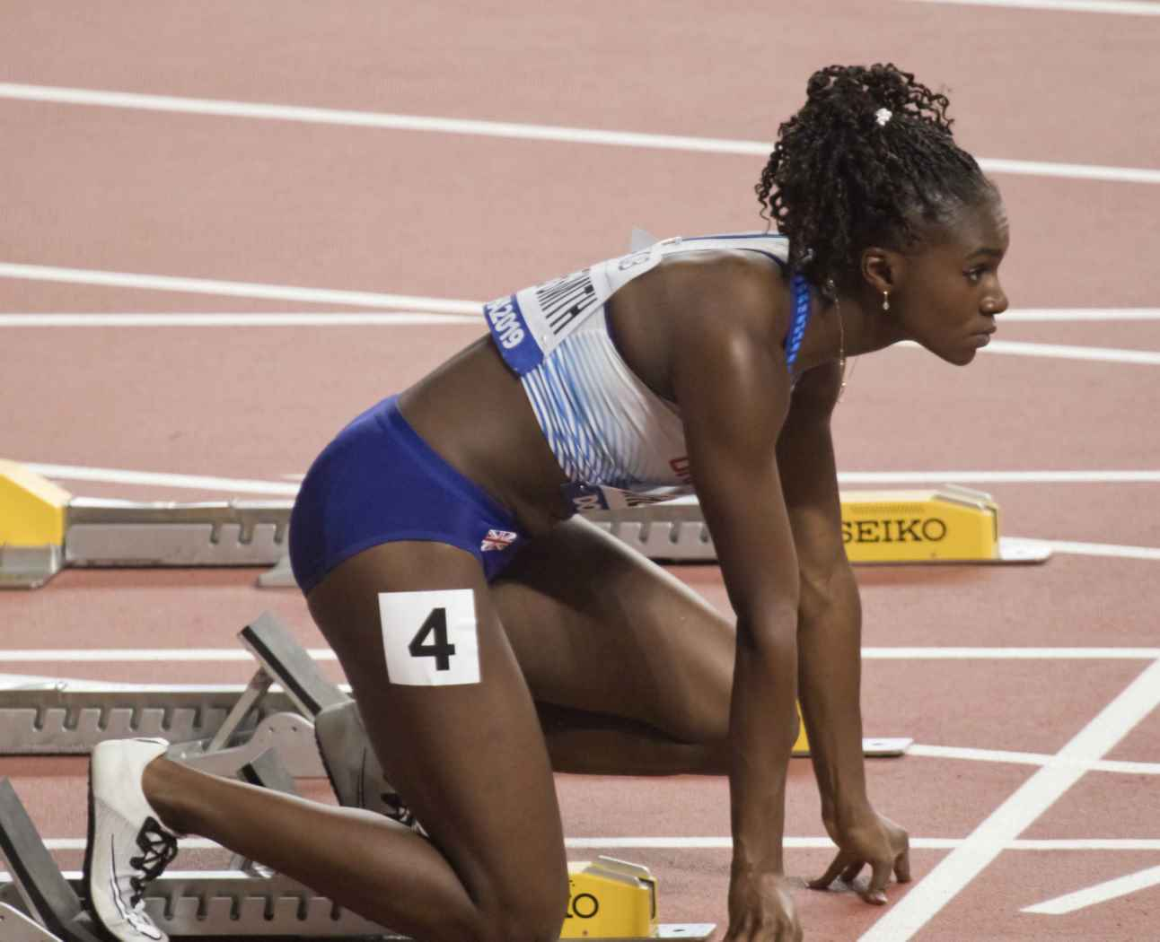 DOH30062 asher-smith